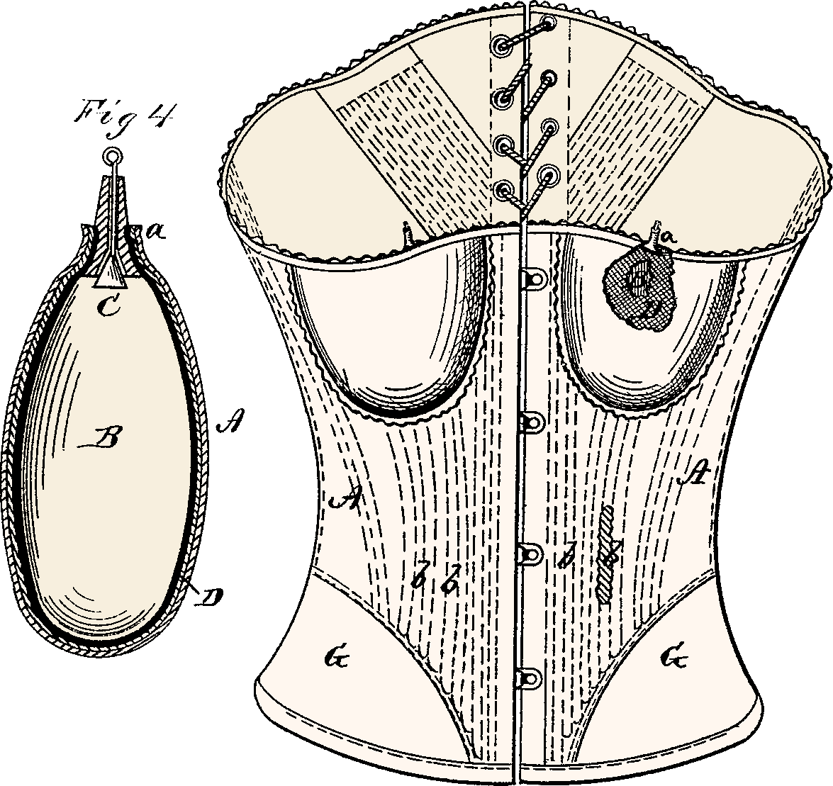 U. S. patent no. 152341 (1873) - Corset by bosom pad